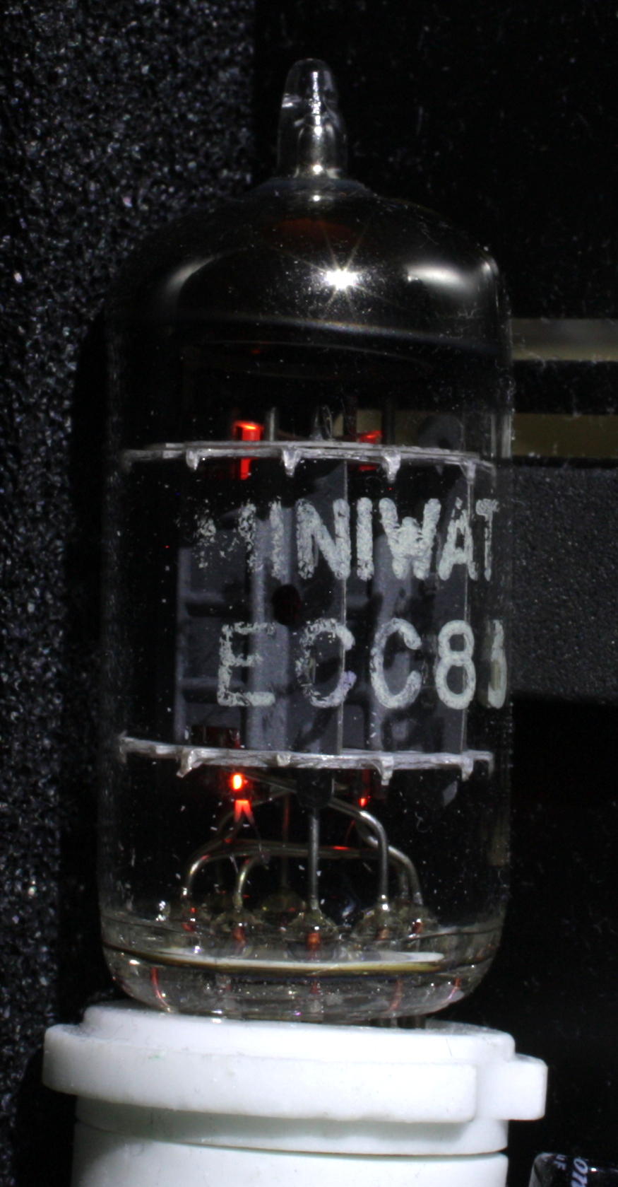 Miniwatt ECC83 tube glowing inside an ART Tube MP preamp